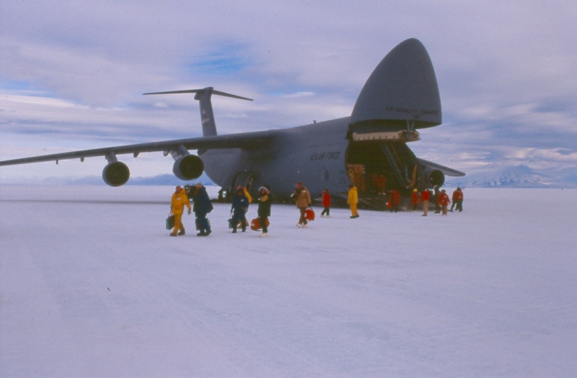 P Bond, ownwork.